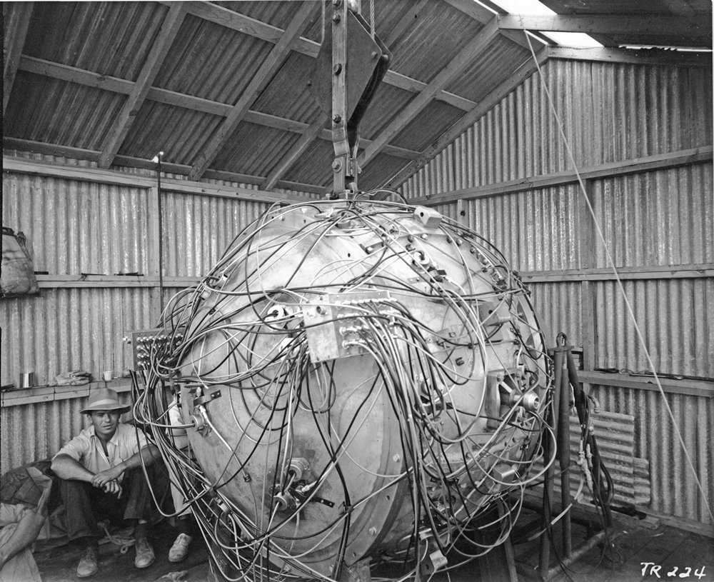 Trinity test. Partially assembled Gadget.